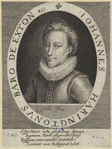 Portrait of John Harington, 2nd Baron Harington of Exton (1572–1614).